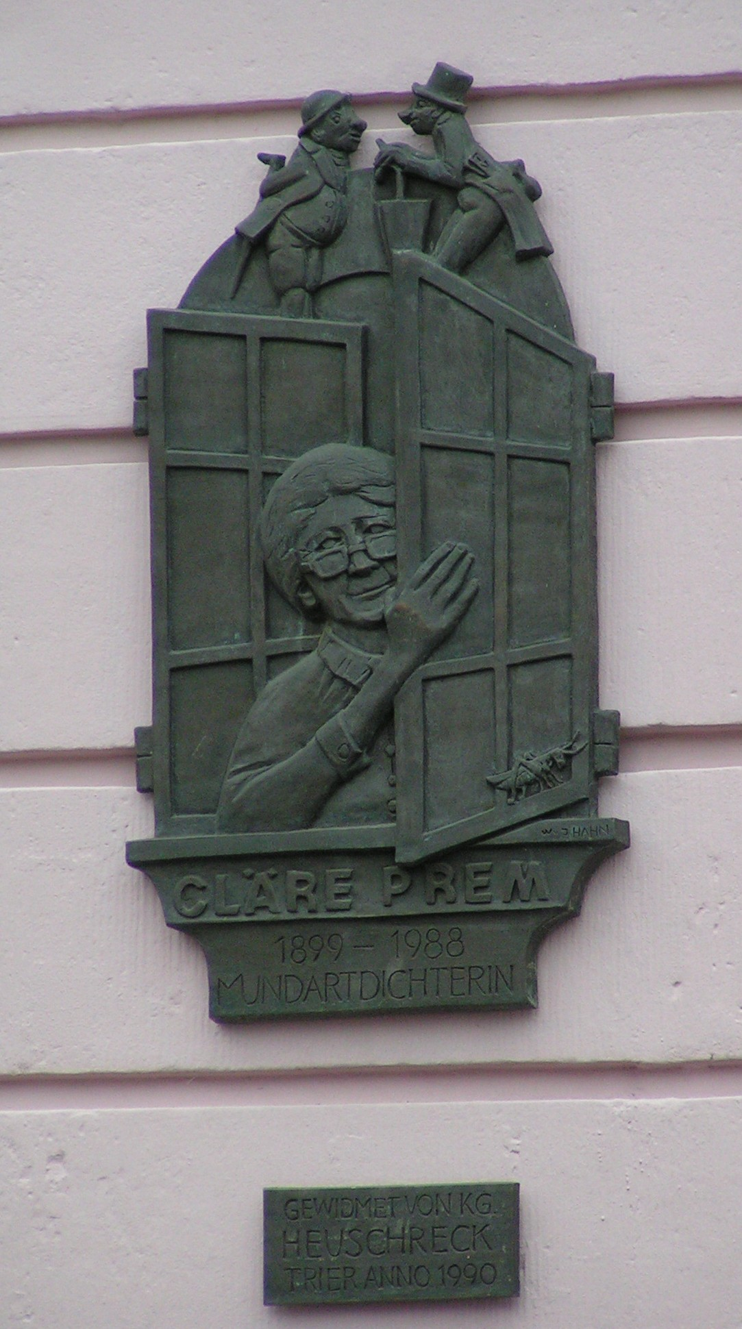 Memorial for Cläre Prem, Hauptmarkt Trier, Germany